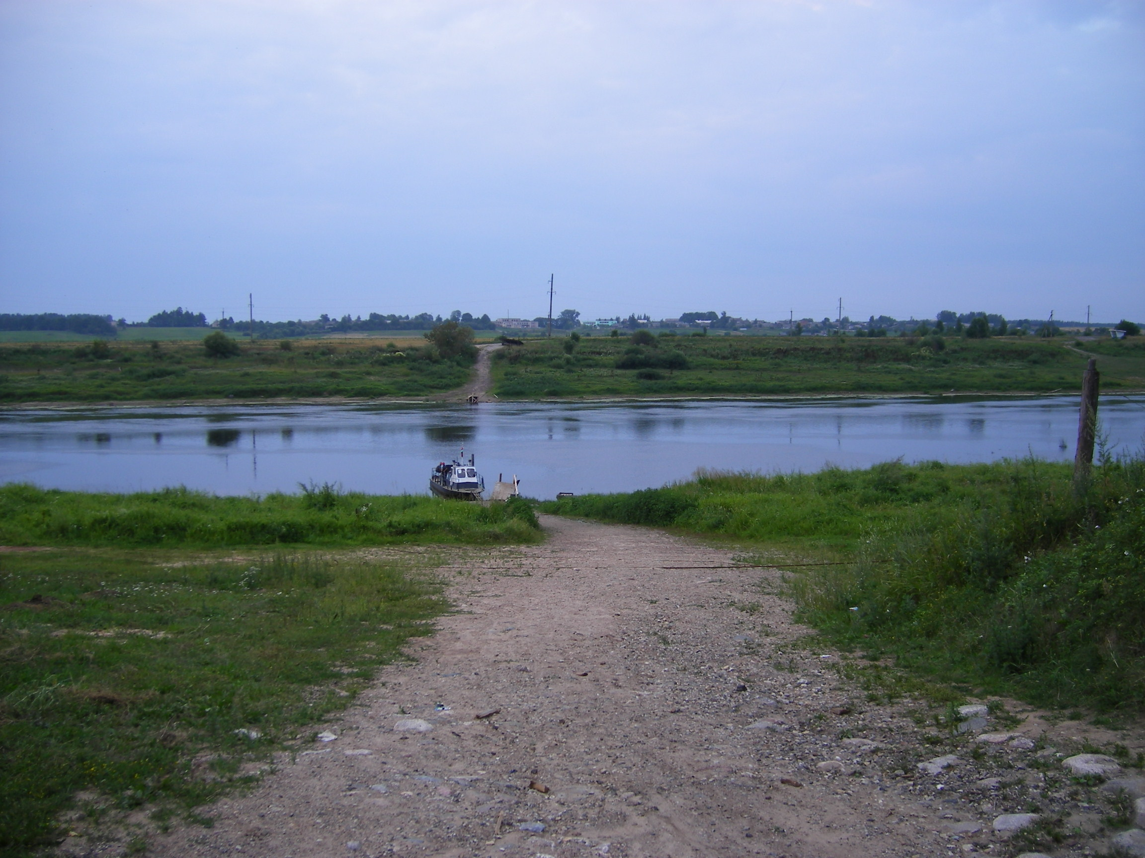 Dzisna, ferry in the Western Dvina river